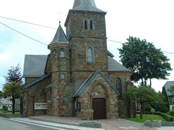 Church of Mürringen